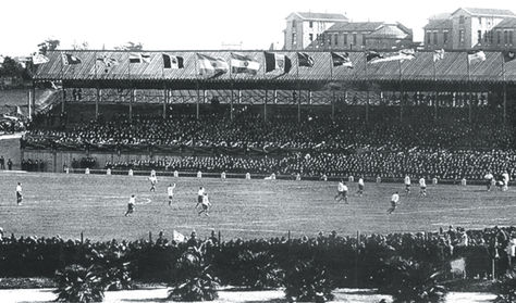 Estadio Parque Pereira of Montevideo, which stood from 1917 to 1920 when it was demolished.